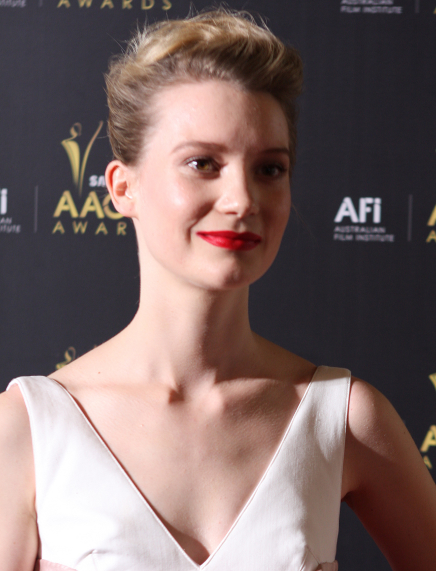 Mia Wasikowska at the Samsung AACTA Awards 2012 in Sydney, Australia.